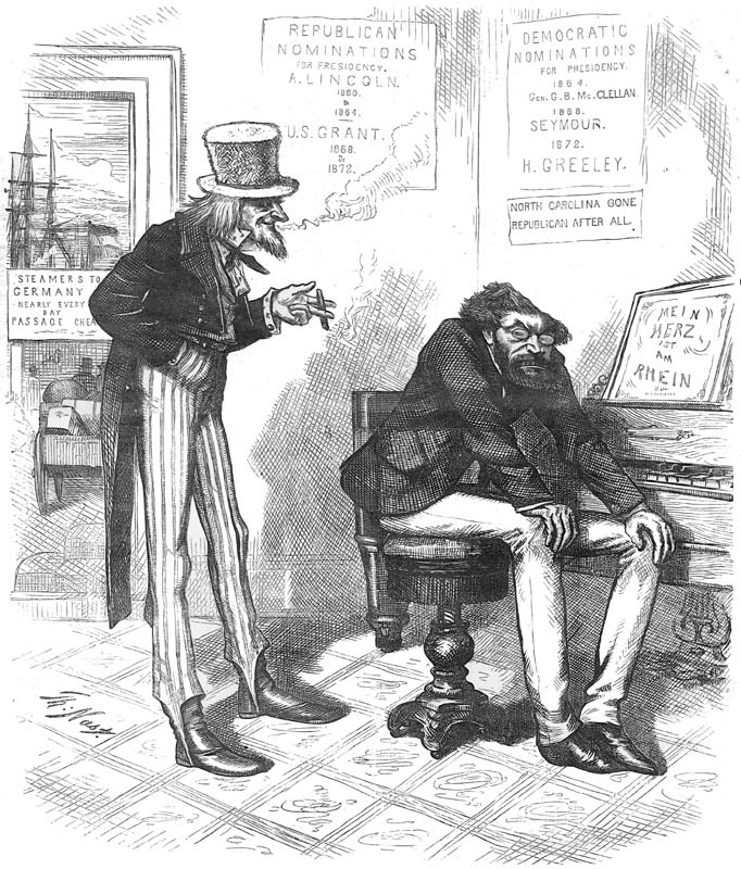 Uncle Sam, cigar in hand, stands speaking to a sullen Carl Schurz sitting at a square piano though turned away from the keyboard. The sheet music on the piano is entitled “Mein Herz ist am Rhein.”